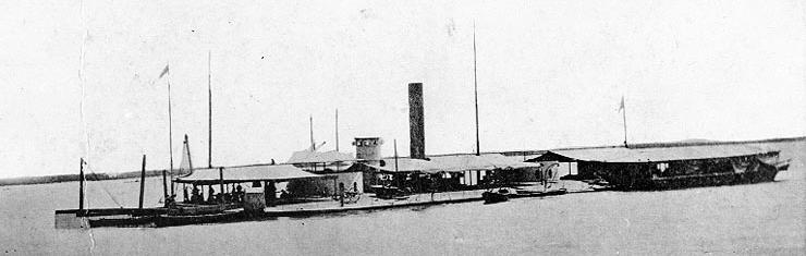 A cropped photograph of the USS Milwaukee in Mobile Bay, circa 1865. Note the awnings added to the deck and the mine rake attached to the bow. Original found at